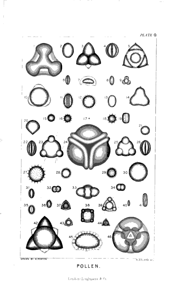 Plate O, from Mungo Ponton, The Beginning: Its When and Its How